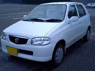 Mazda carol 4th model(HB23S)